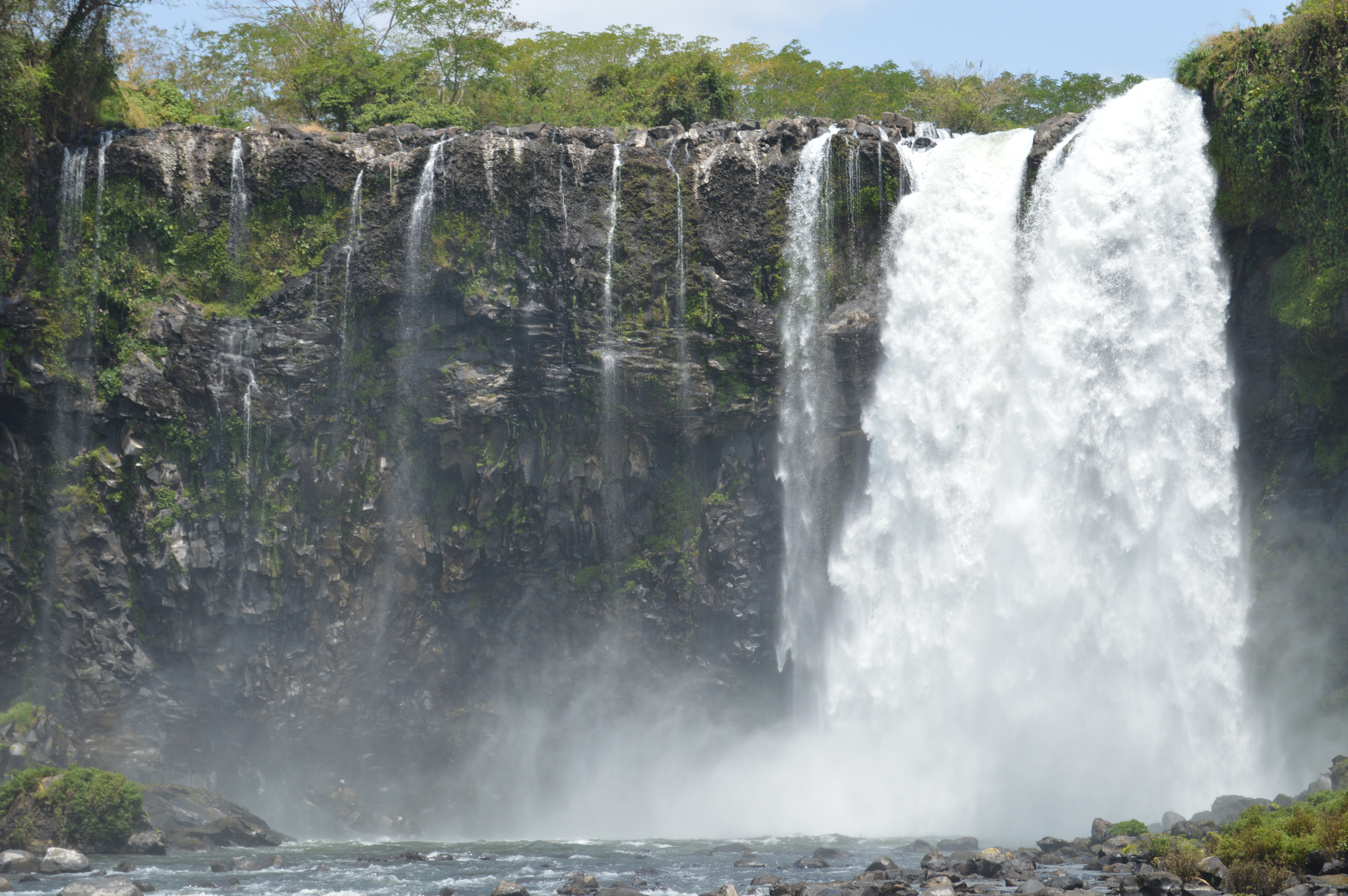 Eyipantla Waterfall, San Andres Tuxtla, Veracruz, Mexico